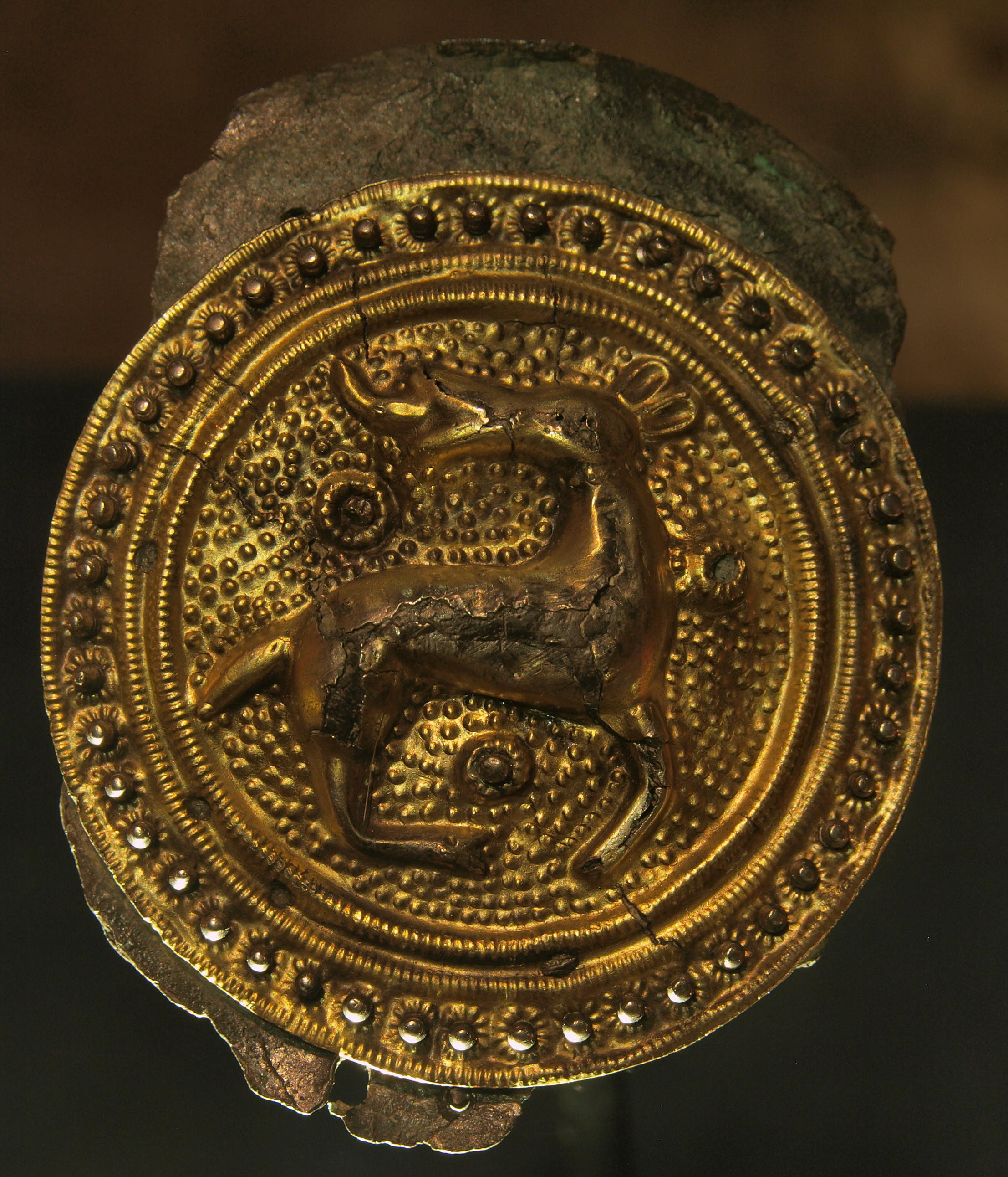 The Tangendorf disc brooch, found in Toppenstedt, Harburg District, Germany. Dating to circa 300 A.D., it shows an animal looking backward over its shoulder. Gilded silver, on a copper and silver plate with tin, the ivory ring was broken by drying out. Now in the permanent exhibition of the Archäologisches Museum Hamburg - Helms-Museum, Hamburg-Harburg, Germany.